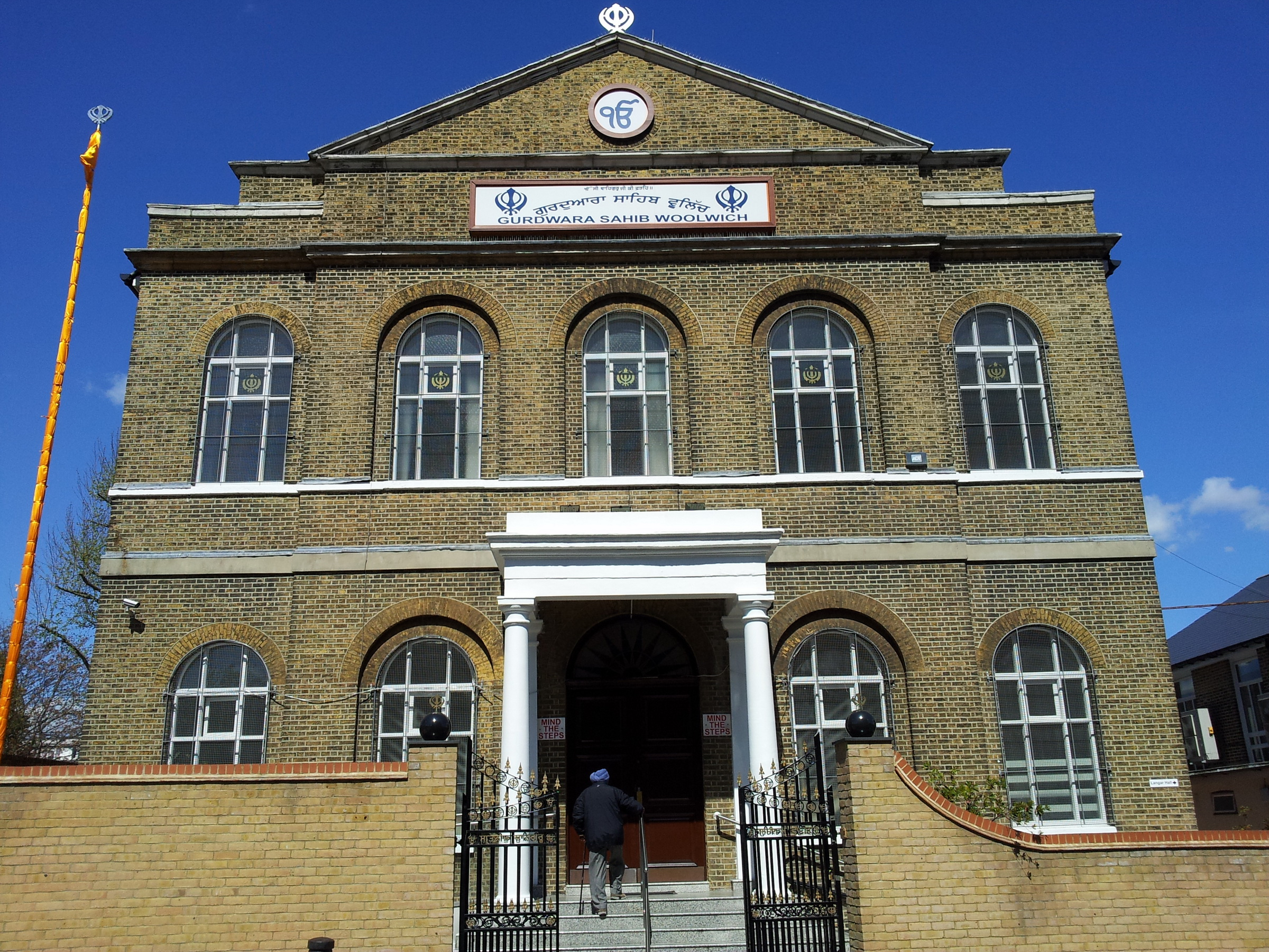 View of a Sikh Gurdwara in Calderwood Street near the centre of Woolwich, South East London.